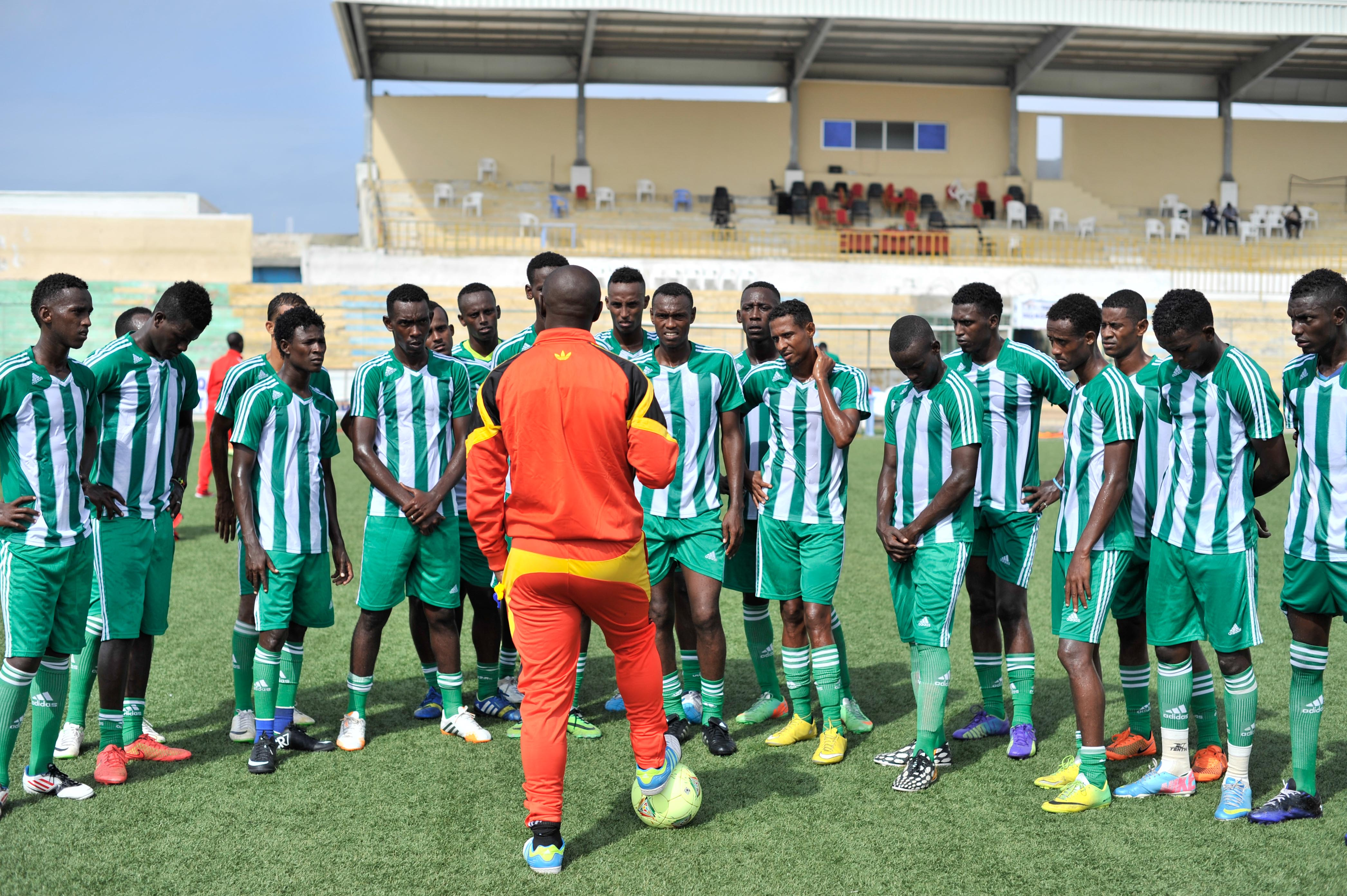 The Somalia national soccer team coach Livingstone Mbabazi (with back to camera) talks to players during a training session at Banadir stadium in Mogadishu on August 29 2015, in preparation for the upcoming World Cup Qualifiers. Sports in Somalia is recovering as a result of the relative peace and progress witnessed in the country.